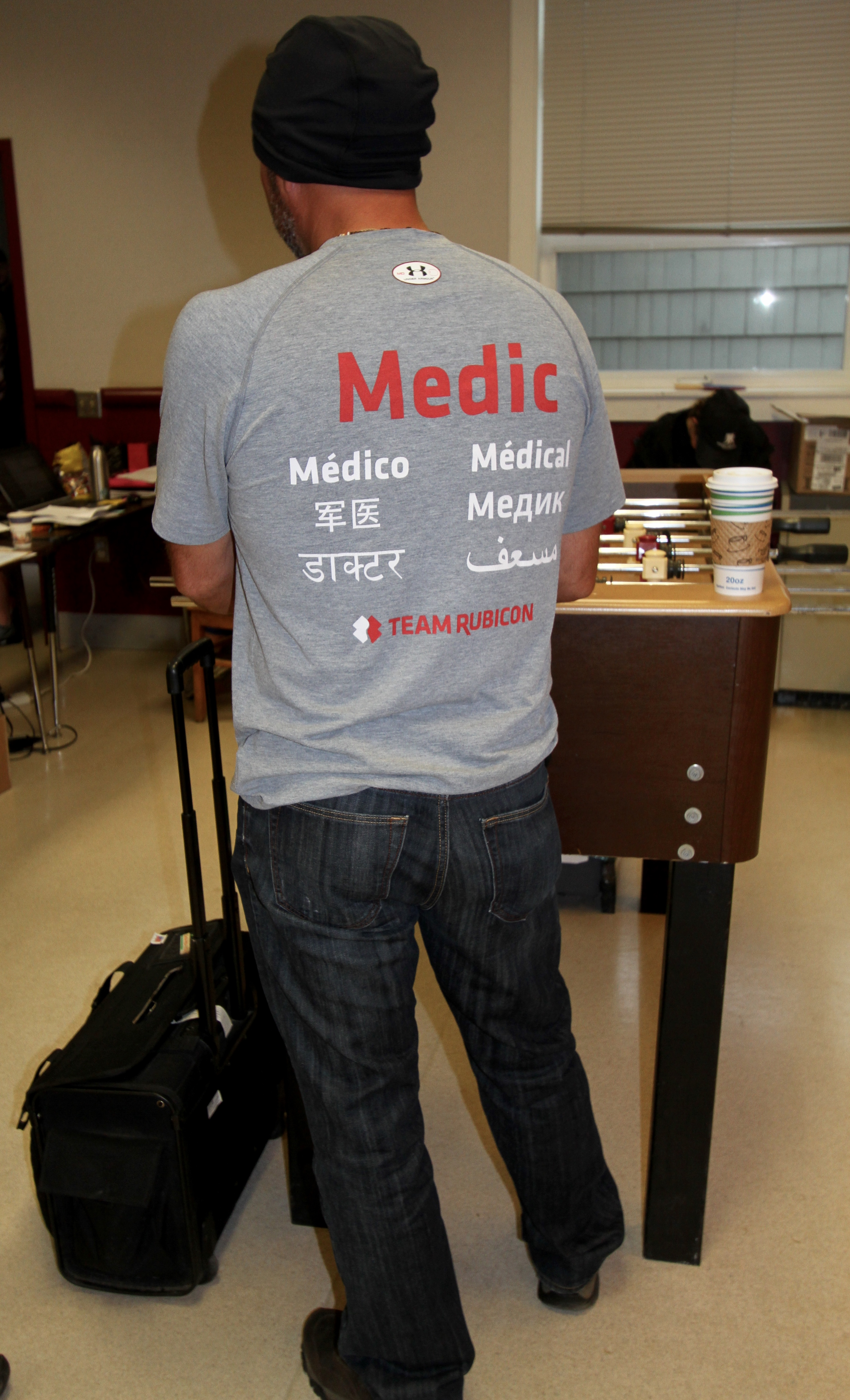 On an emergency deployment, this shirt lets victims know this TR Volunteer is a trained Medic. The Team takes certifications very seriously, and will not allow this shirt to be worn by anyone without proper certifications.